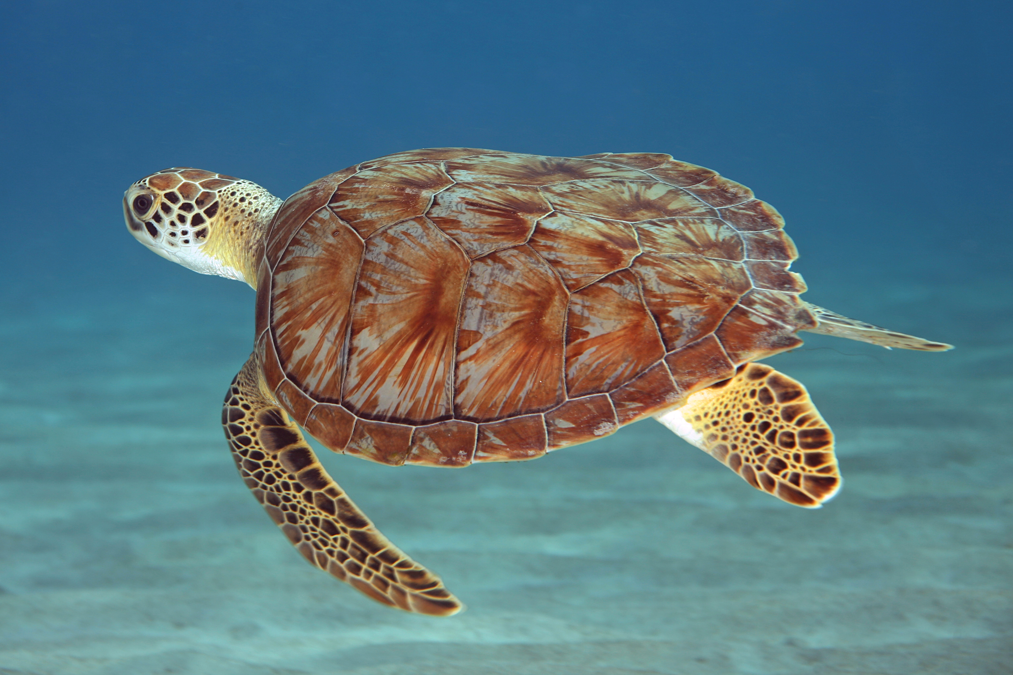 Cute and carefree, this green turtle let me swim alongside, as it went about its business in the warm Caribbean waters of Curaçao. Thanks for the accurate ID Digidiverdeb! Shot at Playa Forti, Westpunt, Curaçao, Netherlands Antilles EOS 5D in Ikelite Housing Dual Strobes Ikelite DS160 & DS125 Canon Zoom Lens EF 28-105mm 1:3.5-4.5 II USM